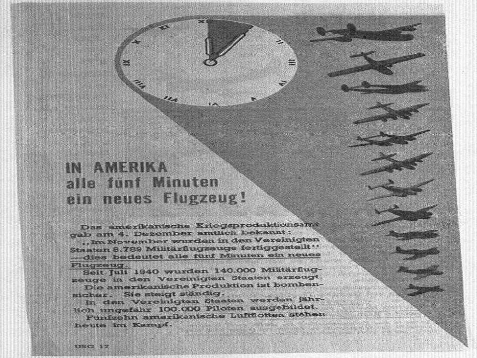 Leaflet describing how many US Aircraft are turned out in 5 minutes as a tactic to induce hopelessness among the German population